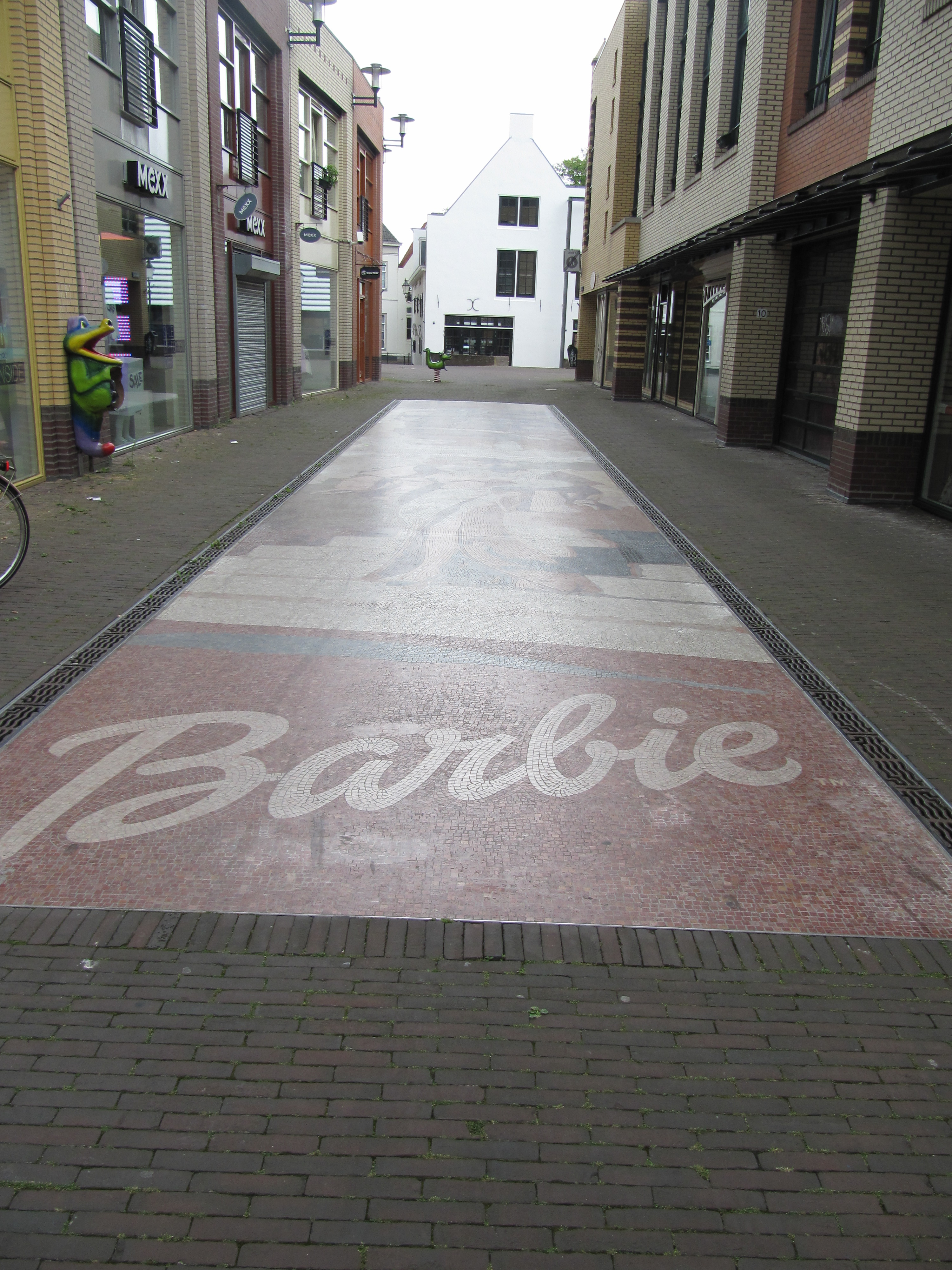 Mosaic "Annie/Barbie" by Hans van Houwelingen at the Mooierplein in Amersfoort, The Netherlands